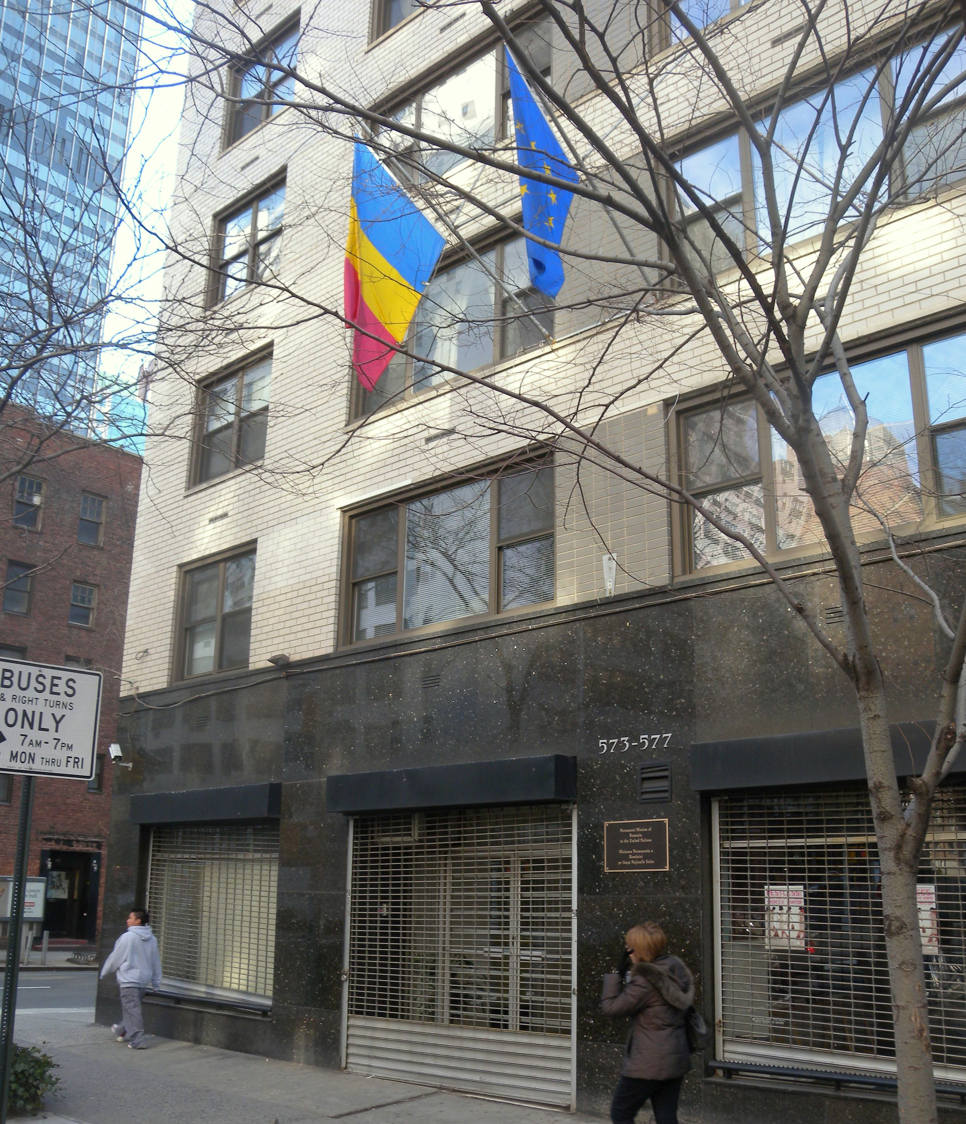 Looking east at Romanian Mission to UN on a cloudy morning.